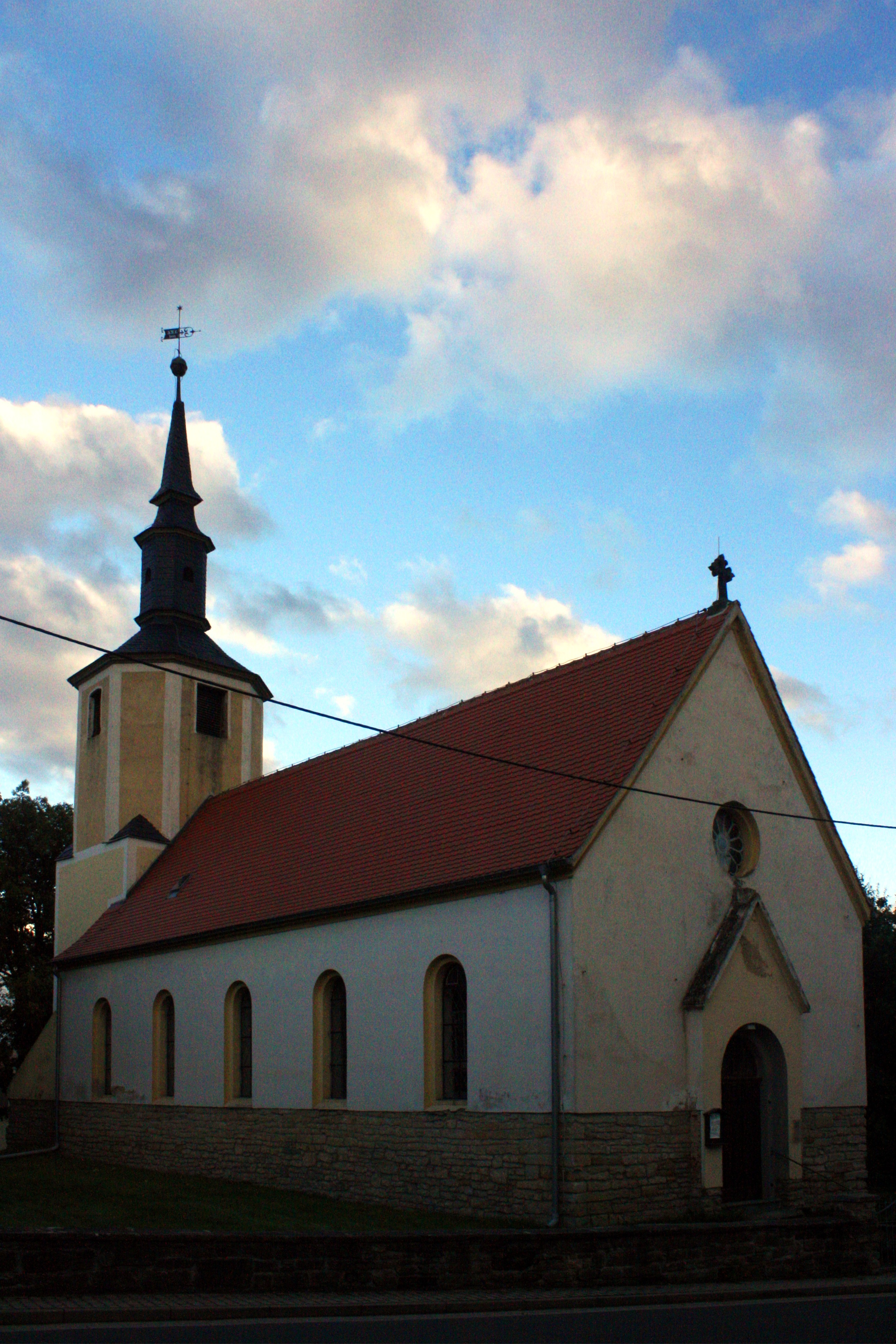 Church in Bröckau near Zeitz in Saxony-Anhalt